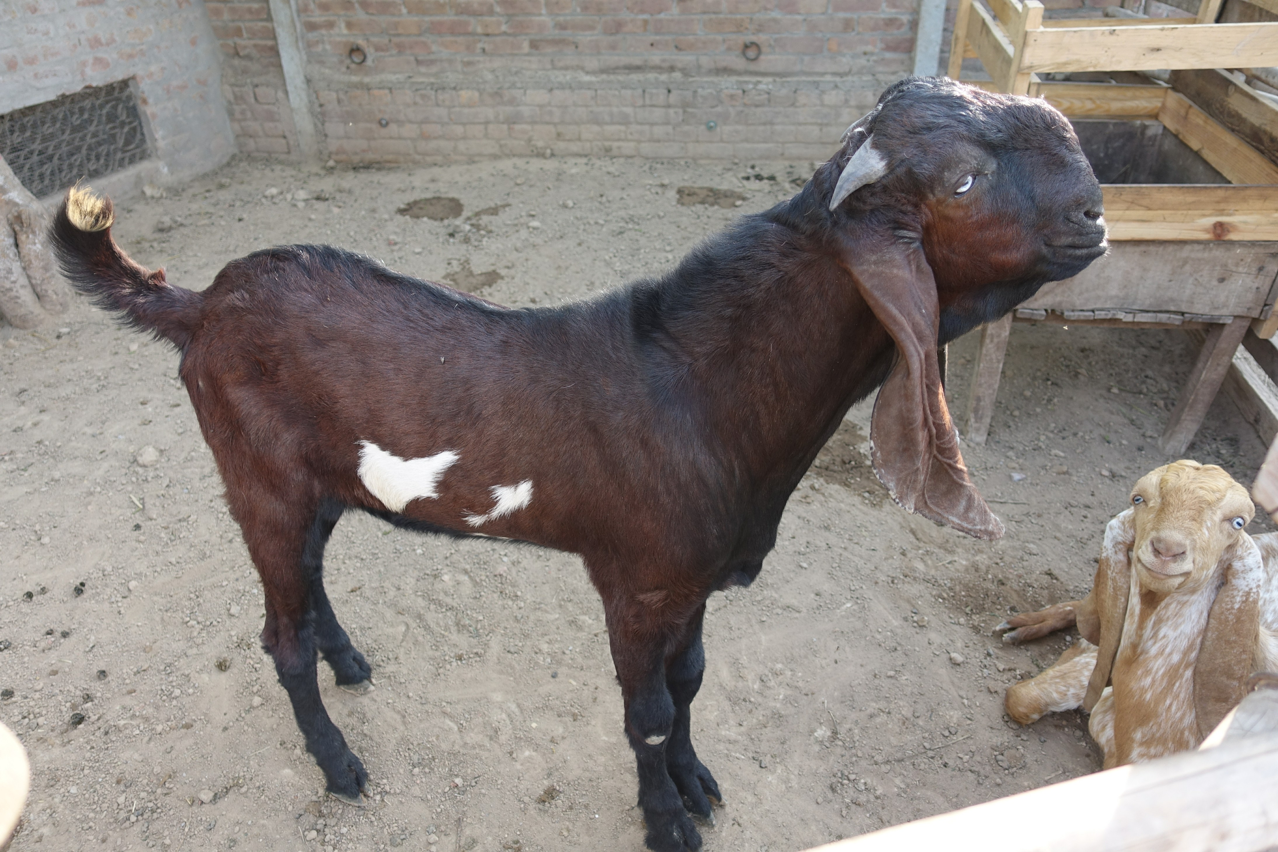 Beetal goats at a private breeder and collector, Faisalabad 03/2018